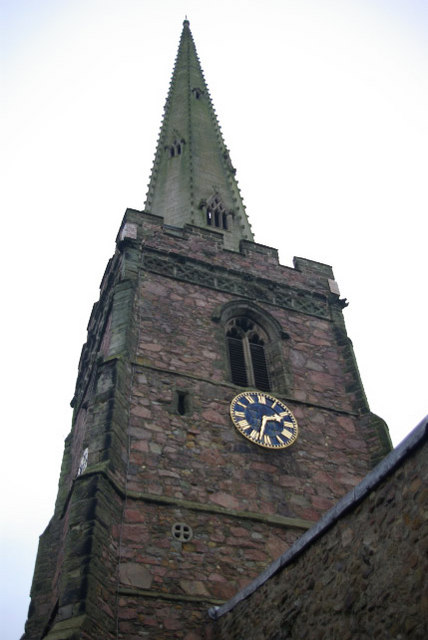 Queniborough Church Parts of St Mary's church date back to pre-Norman conquest times, although the tower is 14th century. The spire is said to be the second tallest in the East Midlands.